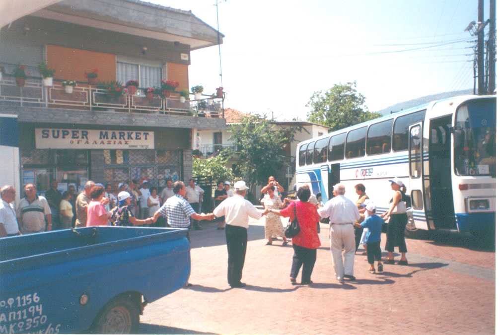 Meeting of refugees from Greek civil war and local people of Tiolischa, Tihio, Aegean Macedonia, Greece